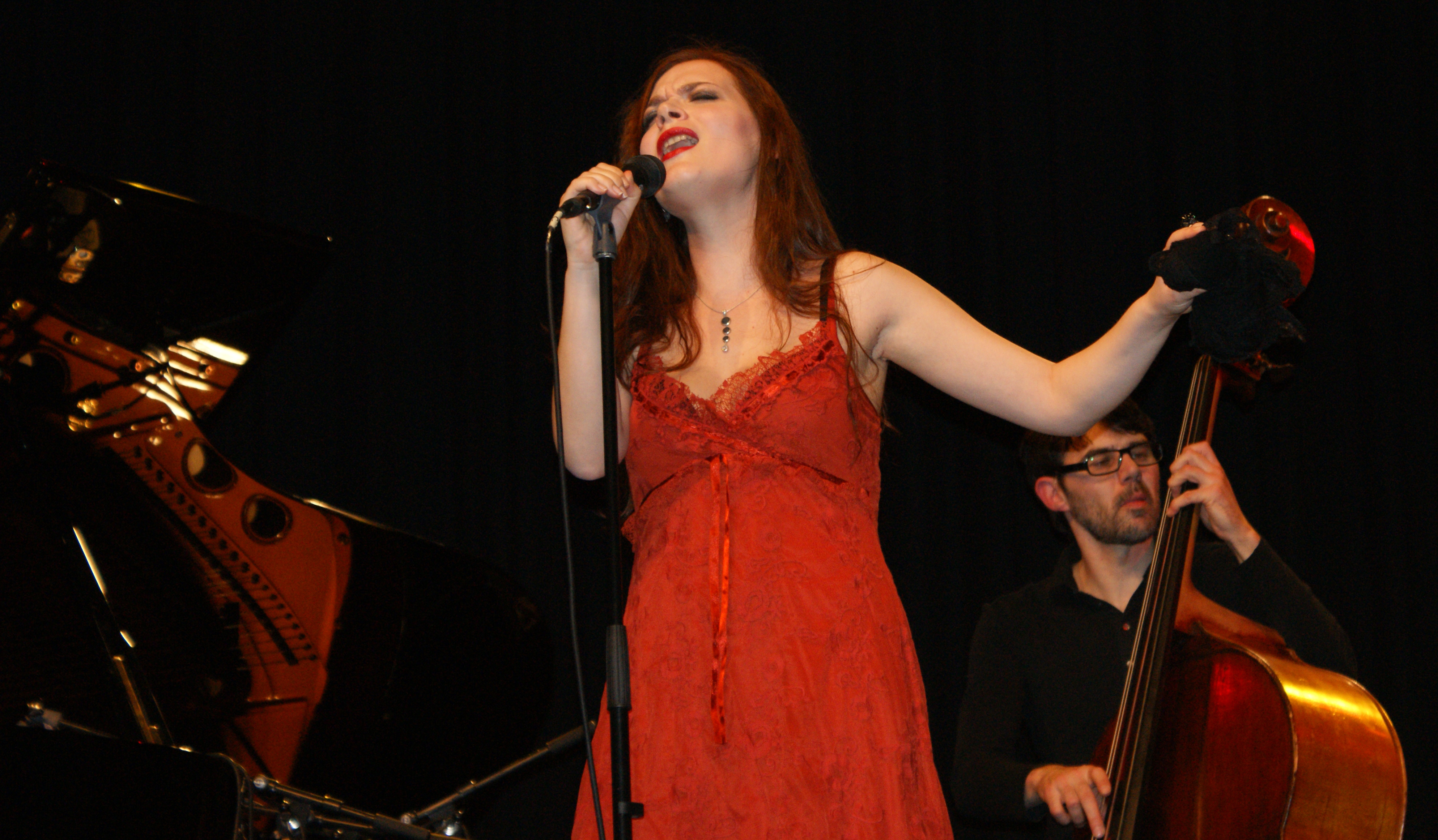 Swiss-Albanian Jazz Singer Elina Duni and bassist Patrice Moret in the background during a concert in Wil SG, Switzerland